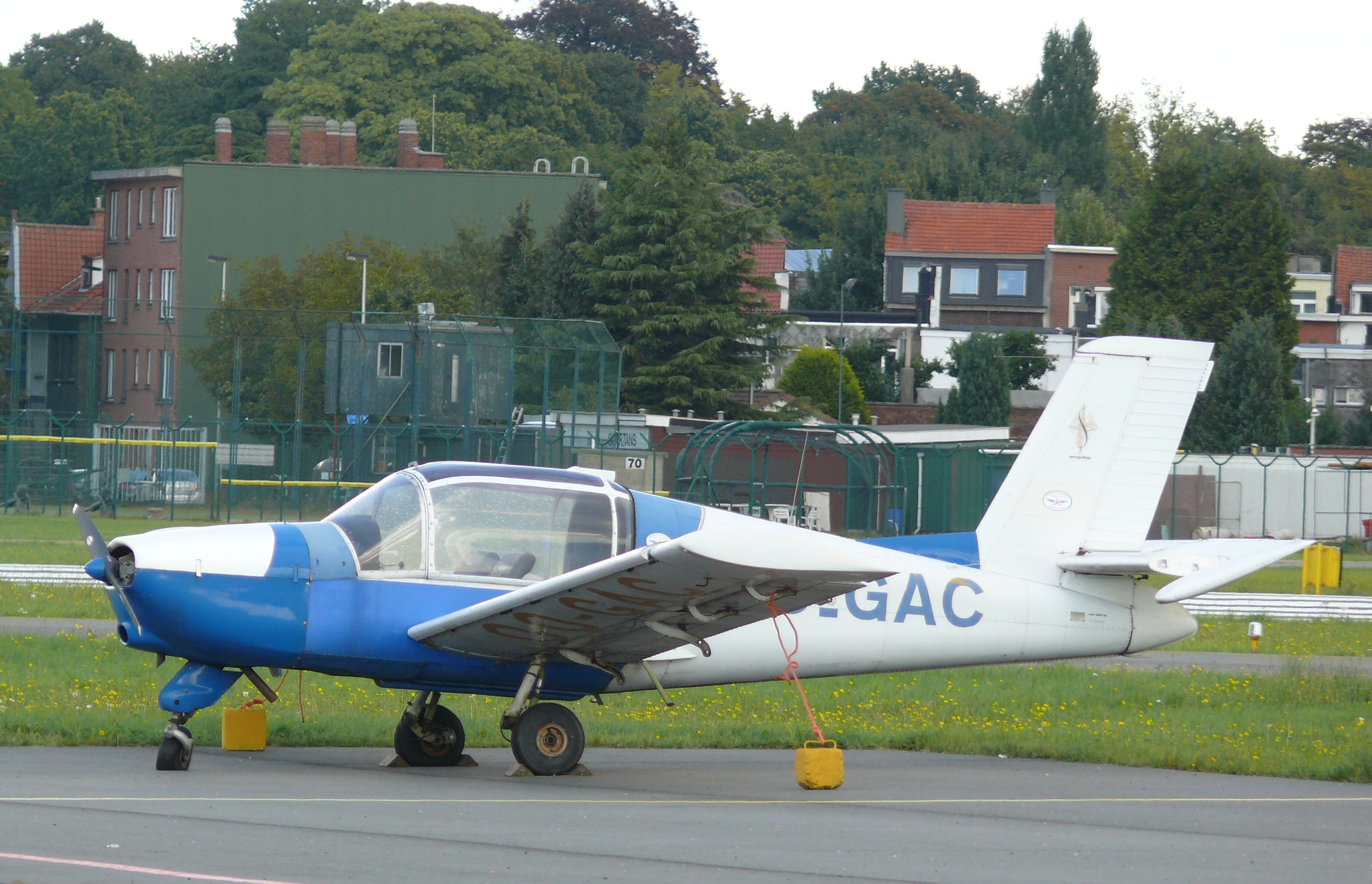 Socata MS-880B Rallye Club OO-GAC (c/n 2302) at Antwerp International Airport.